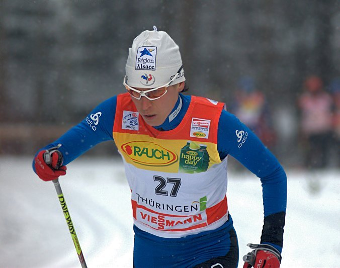 Karine Laurent Philippot at the Tour de Ski 2010 in Oberhof